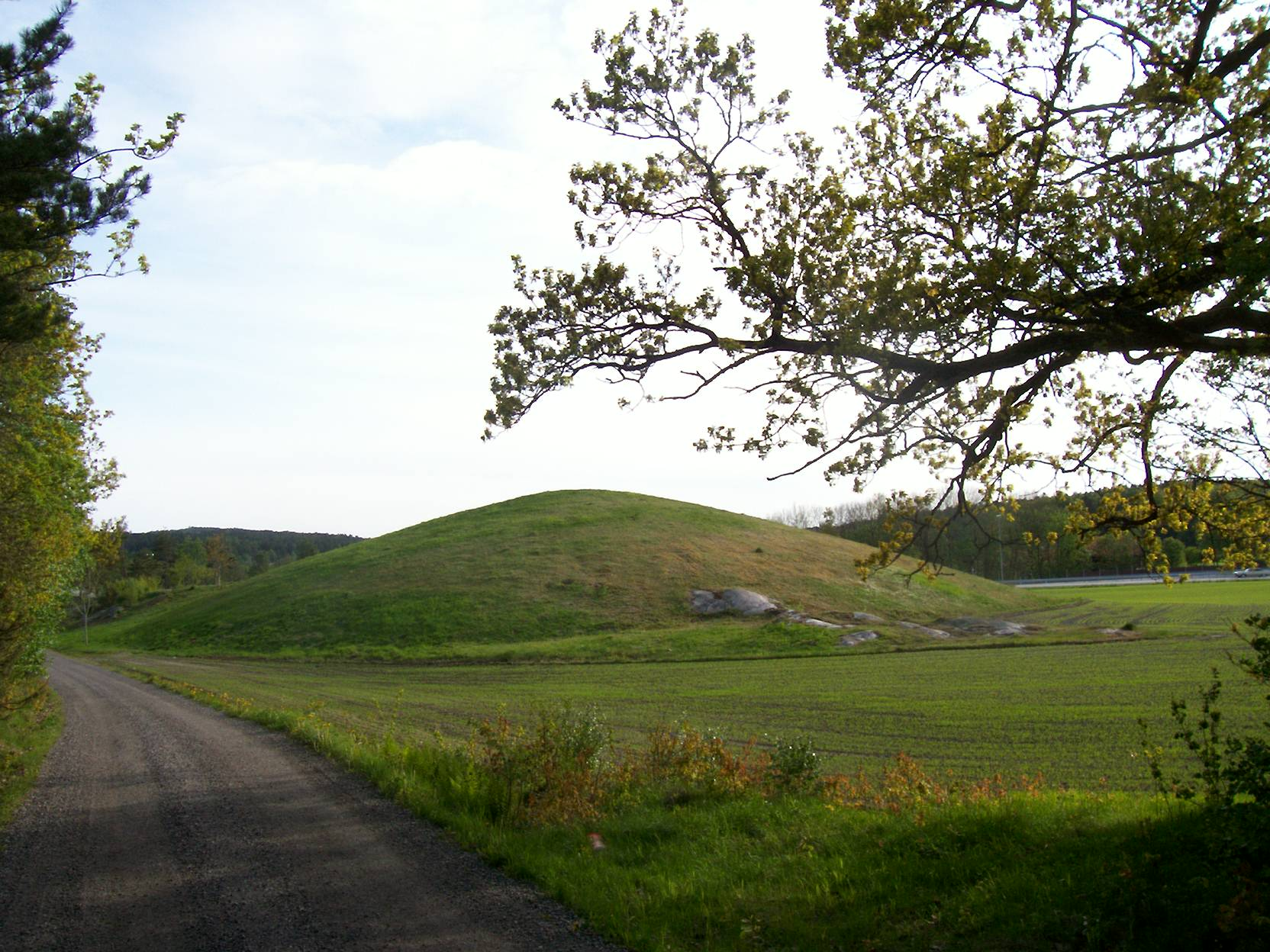 Jellhaugen, Halden, Norway - one of the bigger Norwegian grave mounds from around 500 AD